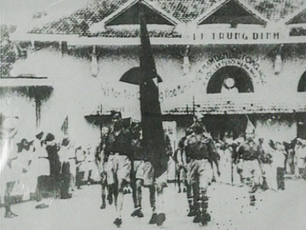 National Guard at Nha Trang